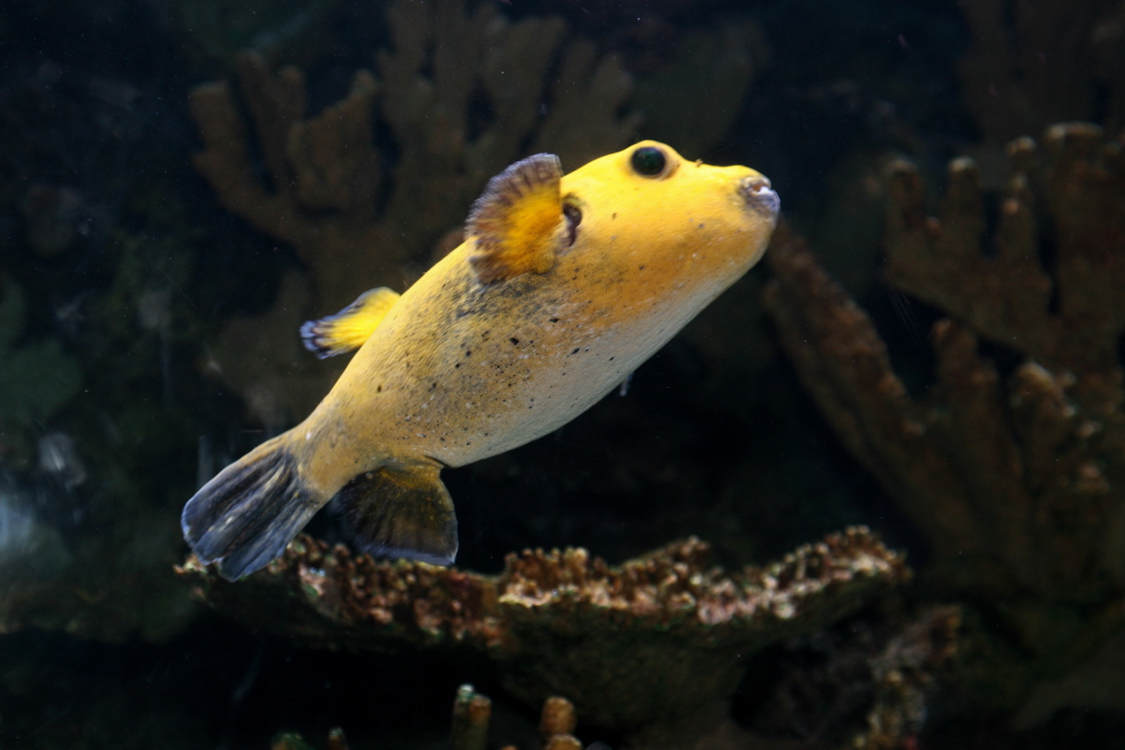 The Golden Puffer is a fish of many names including Guinea Fowl Puffer and Spotted Puffer. It changes appearance during different stages of its life. While in the black phase, it is black with white spots over the entire body. The golden phase is denoted by its rich burgundy to golden tan coloring with smaller white spots covering its body. It also has a yellow phase, during which, it is lacking the white spots. It very rarely changes phases while living in an aquarium. The Golden Puffer lacks pelvic fins, but is very maneuverable, using its pectoral, dorsal, and anal fins. Instead of "teeth," it has a fused beak-like structure which it uses to crush prey. While "puffed up," its spines are held straight out from the body to discourage others from trying to eat it. Parts of the flesh are poisonous if digested.